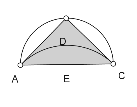 Lune of Hippocrates